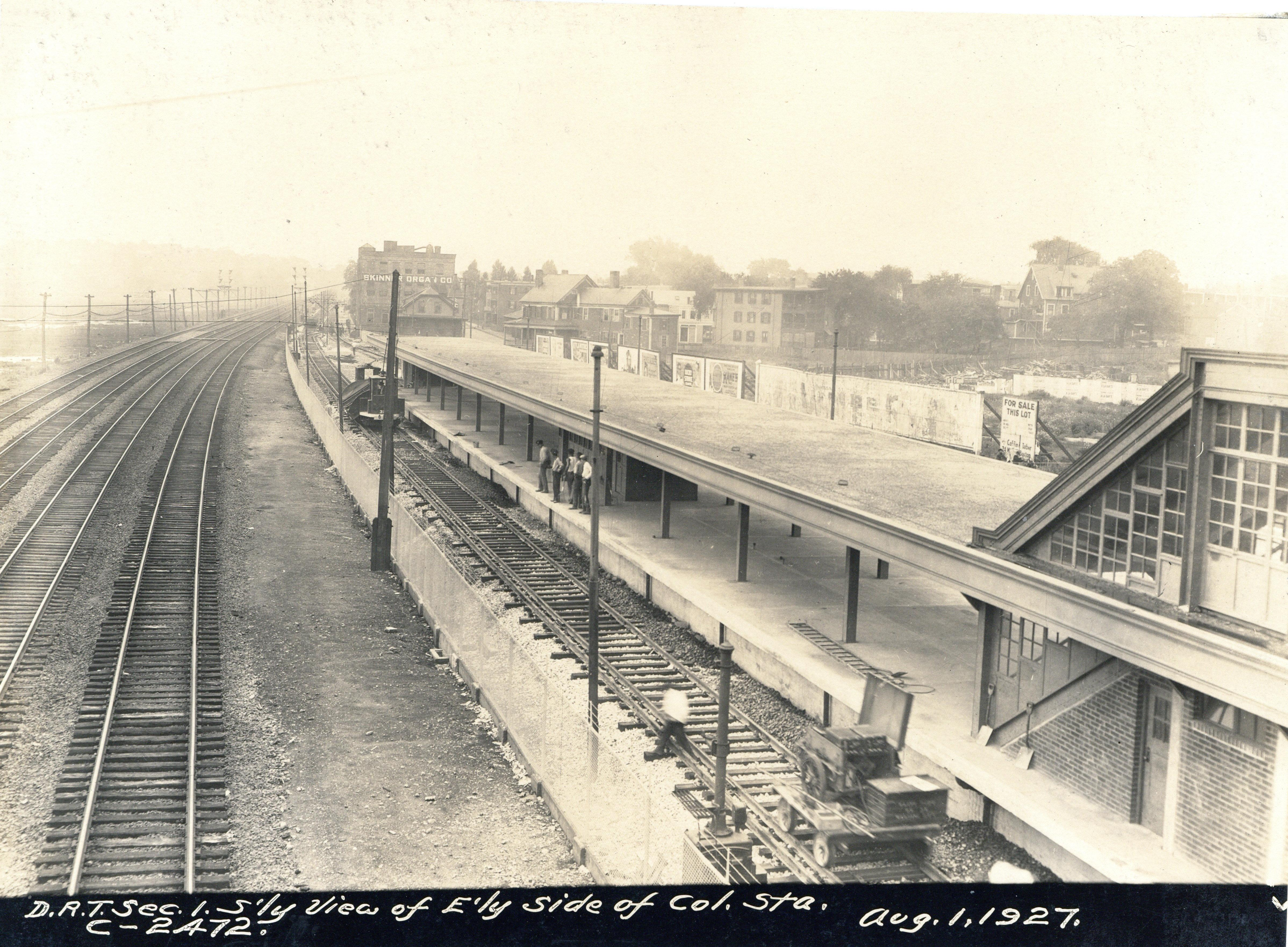 Columbia station under construction in August 1927, with the former Crescent Avenue station behind it